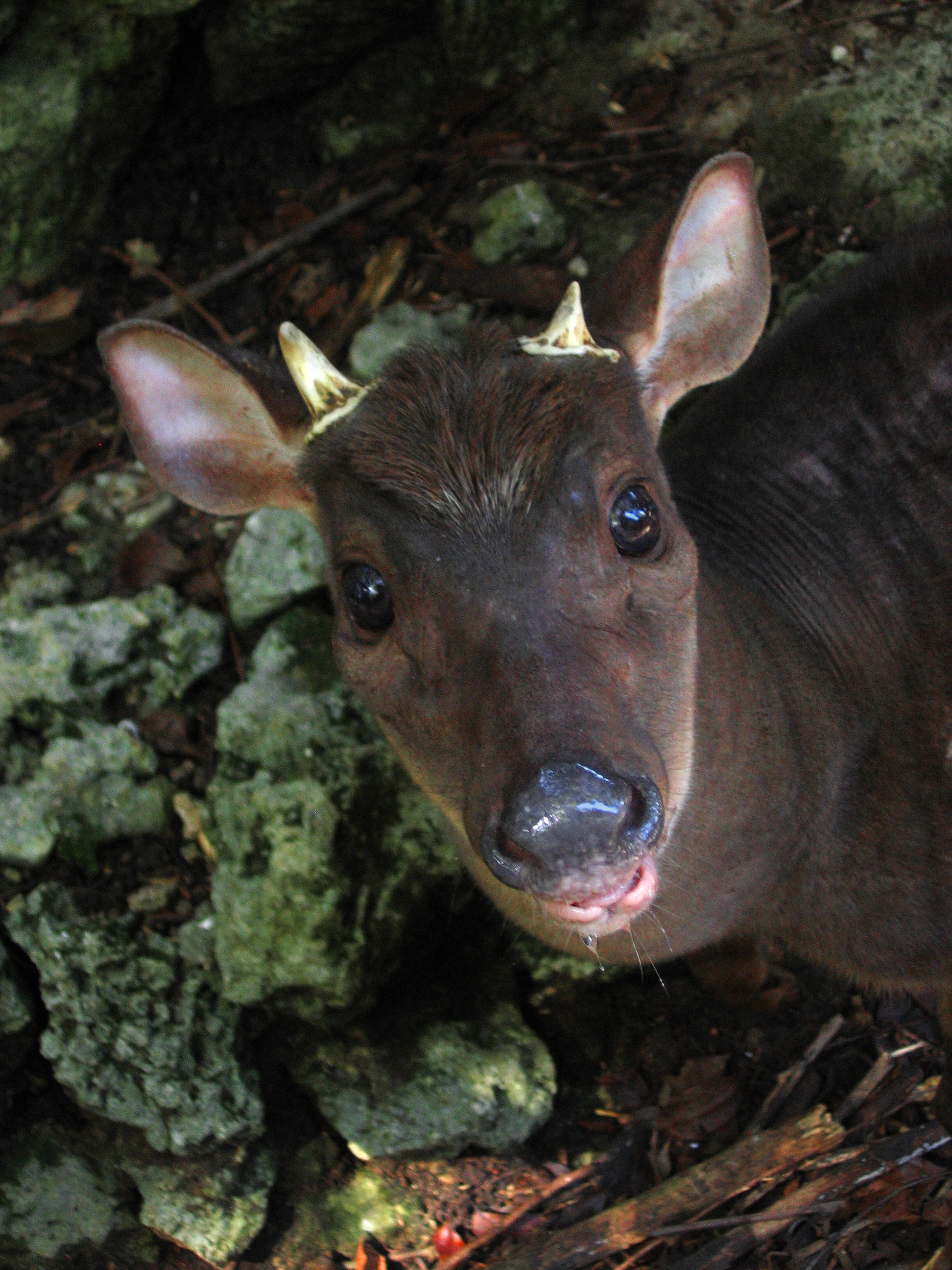 Closeup of head of Red Brocket Deer (Mazama americana) at the Barbados Wildlife Reserve, Saint Peter Parish, Barbados.